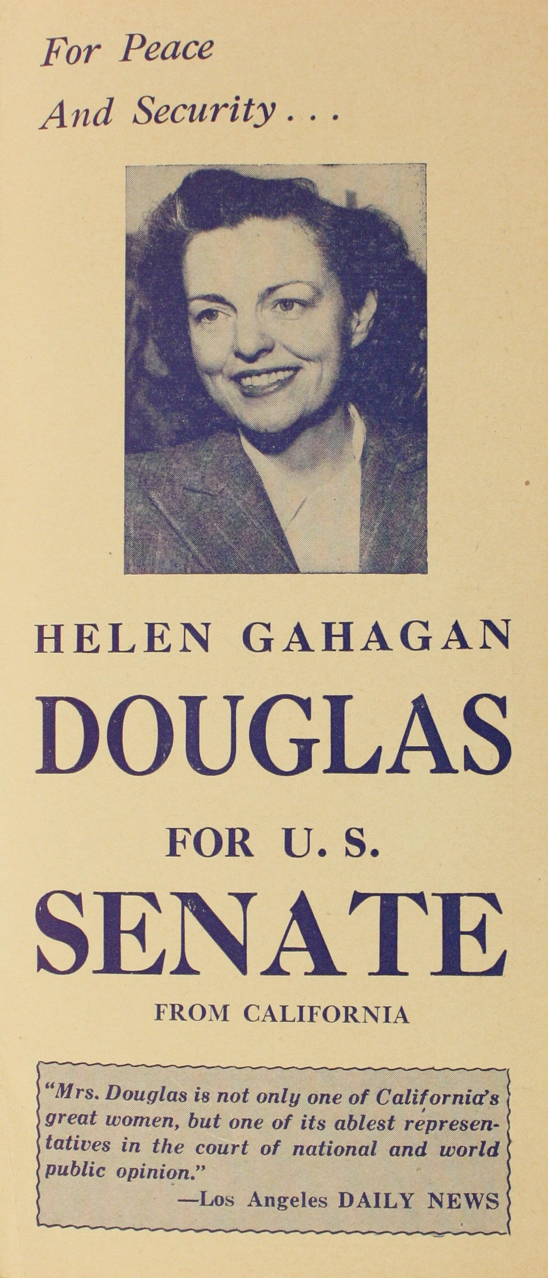 Flyer/handout for Douglas for Senate campaign, 1950. Both sides examined, no copyright notice.